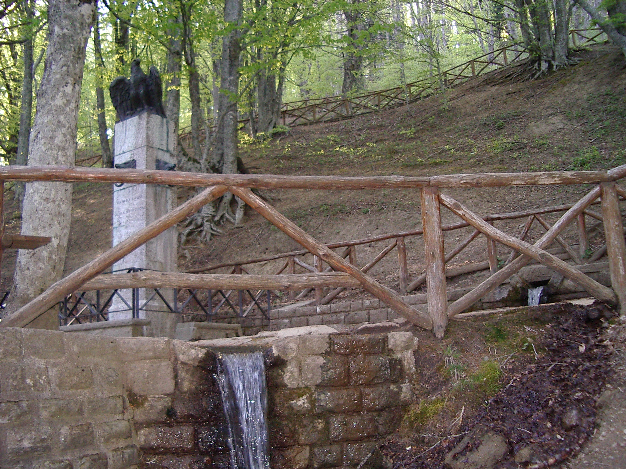 Source of Tiber, Monte Fumaiolo, Emilia Romagna, Italy